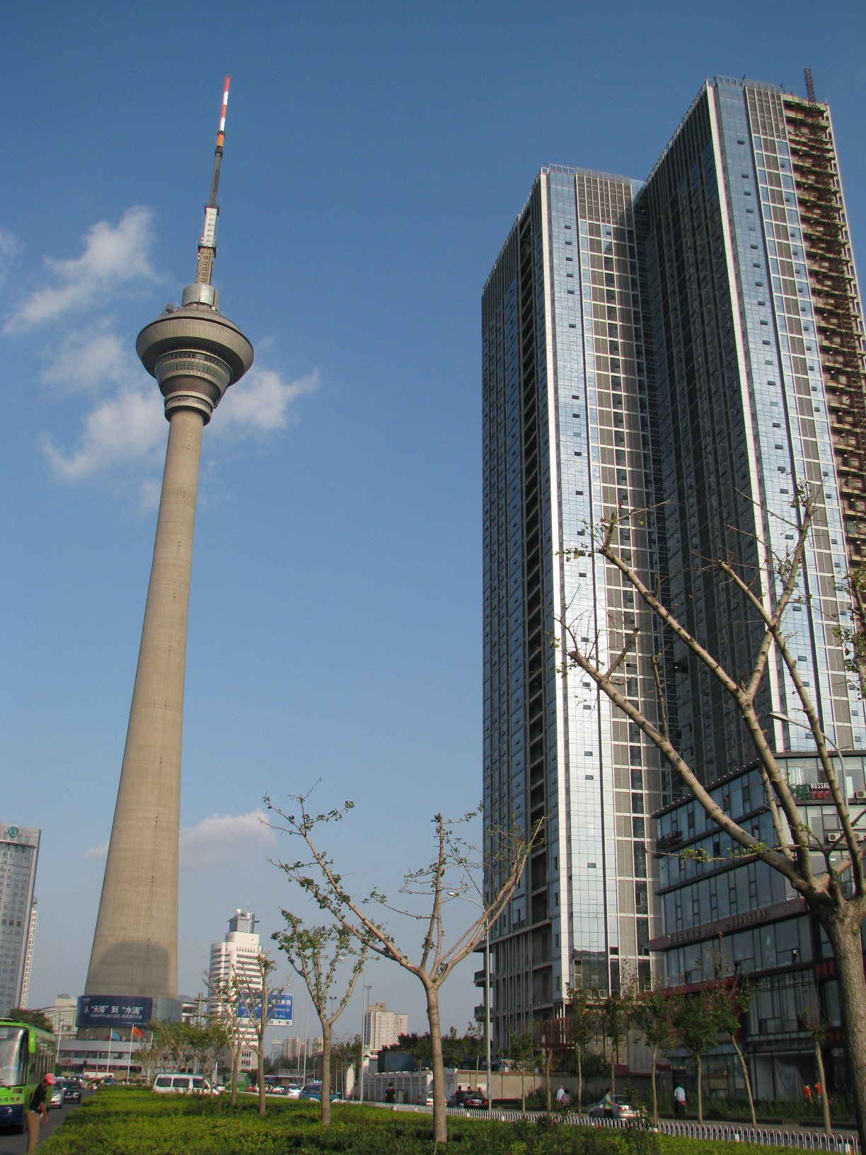 Tianjin TV tower near to skyscrapers(small, low resolution)